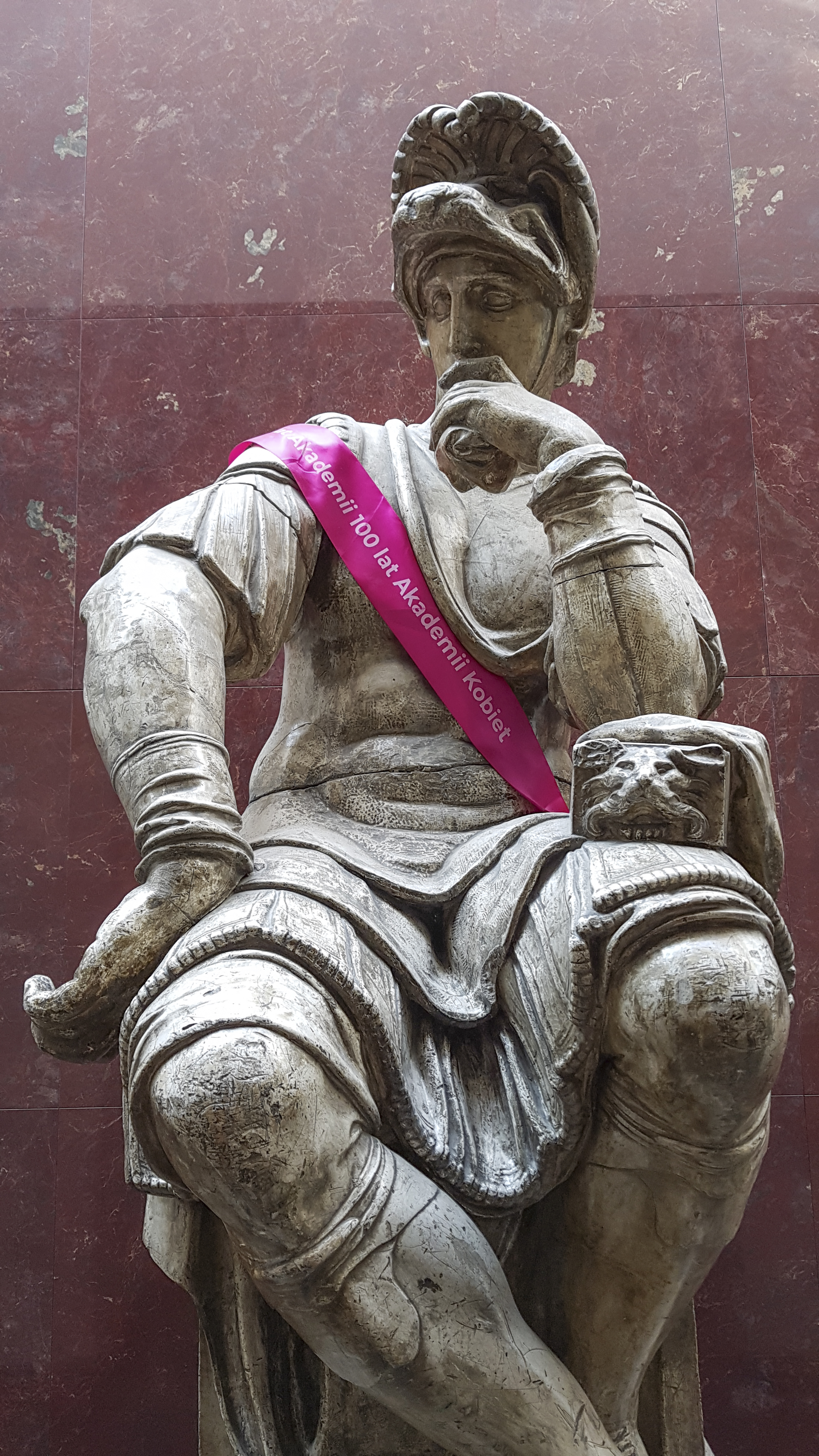 The pink ribbon of the copy of the sculpture of Lorenzo II di Piero de'Medici from the tombstone "Dusk & Dawn" by Michelangelo Buanarotti, Jan Matejko Square 13.